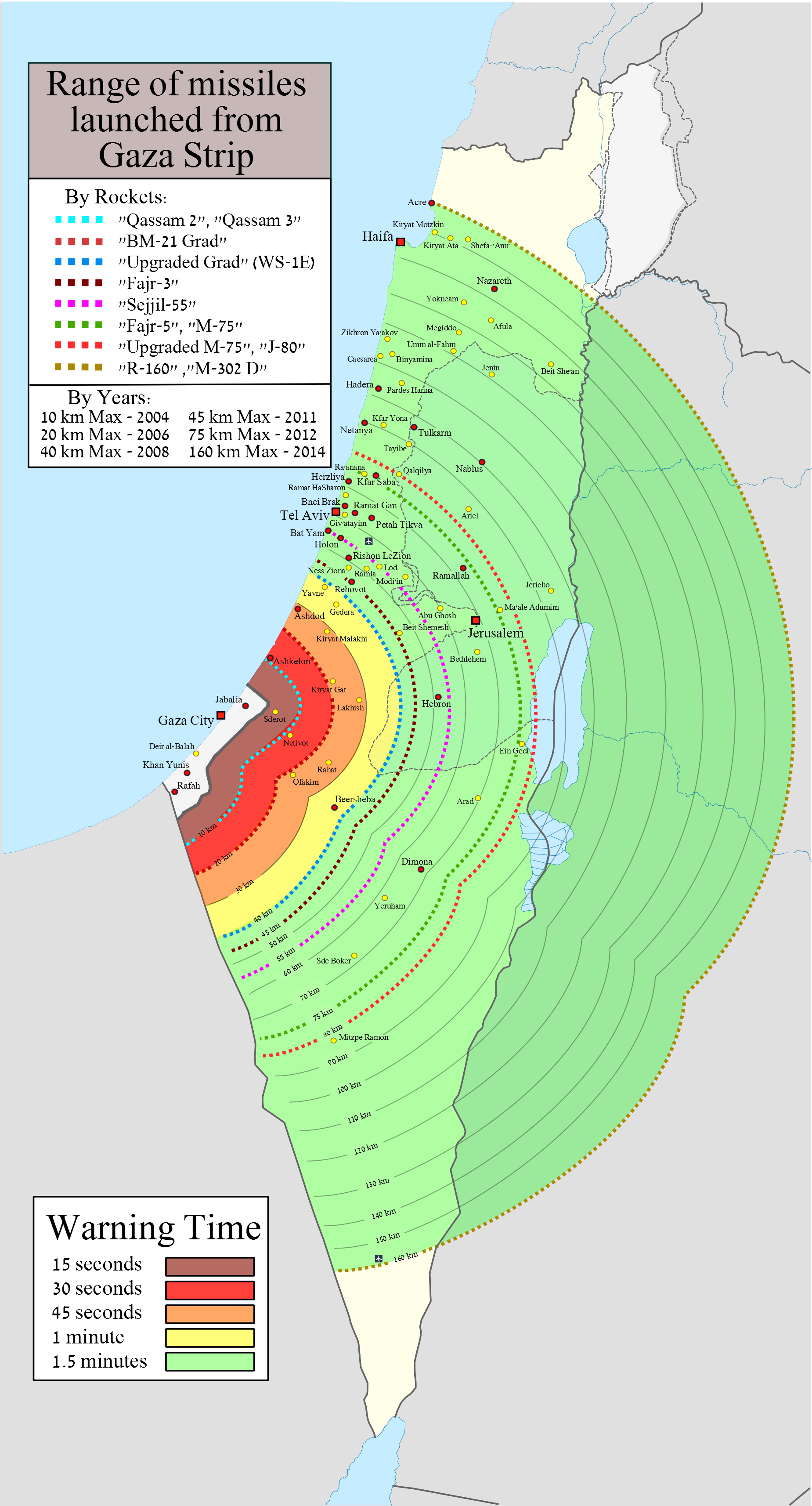 Range of missiles launched from Gaza Strip (10-160 km) Cities in the 10 km range: Sderot. Cities in the 20 km range: Netivot, Ashkelon. Cities in the 30 km range: Ofakim, Rahat, Lachish, Ashdod, Kiryat Gat, Kiryat Malakhi. Cities in the 40 km range: Beersheba, Yavne. Cities in the 45 km range: Rehovot. Cities in the 50 km range: Beit Shemesh, Ness Ziona. Cities in the 60 km range: Rishon LeZion, Holon, Bat Yam, Ramla, Lod, Modi'in, Hebron. Cities in the 70 km range: Jerusalem, Tel Aviv-Jaffa, Ramat Gan, Petah Tikva, Ramat HaSharon, Bnei Brak, Dimona, Yeruham, Sde Boker, Bethlehem. Cities in the 75 km range: Herzliya, Ra'anana, Ramallah, Arad. Cities in the 80 km range: Kfar Saba, Ma'ale Adumim, Ein Gedi. Cities in the 90 km range: Ariel, Mitzpe Ramon. Cities in the 100 km range: Netanya, Tayibe, Tulkarm, Jericho. Cities in the 110 km range: Hadera, Nablus. Cities in the 120 km range: Zikhron Ya'akov, Binyamina, Caesarea. Cities in the 130 km range: Jenin, Umm al-Fahm. Cities in the 140 km range: Afula, Megiddo, Yokneam. Cities in the 150 km range: Haifa, Nazareth, Beit She'an. Cities in the 160 km range: Kiryat Ata, Kiryat Motzkin, Shefa-'Amr. All rockets used by Hamas or Jihad: Qassam 2: first used in February 2002.[1] Qassam 3: first used in 2004 BM-21 Grad: first used in 2006 Upgrade BM-21: first used in December 2008 (Operation Cast Lead - Gaza War)[2] Fajr-3: first used in October 2011[3] Sejjil-55: first used in July 2014 (Operation Protective Edge)[4] Fajr-5: first used in November 2012 (Operation Pillar of Defense) M-75: first used in November 2012 (Operation Pillar of Defense)[5] Upgrade M-75: first used in July 2014 (Operation Protective Edge)[6] J-80: first used in July 2014 (Operation Protective Edge)[7] R-160: first used in July 2014 (Operation Protective Edge)[8] M-302 D: first used in July 2014 (Operation Protective Edge)[9]